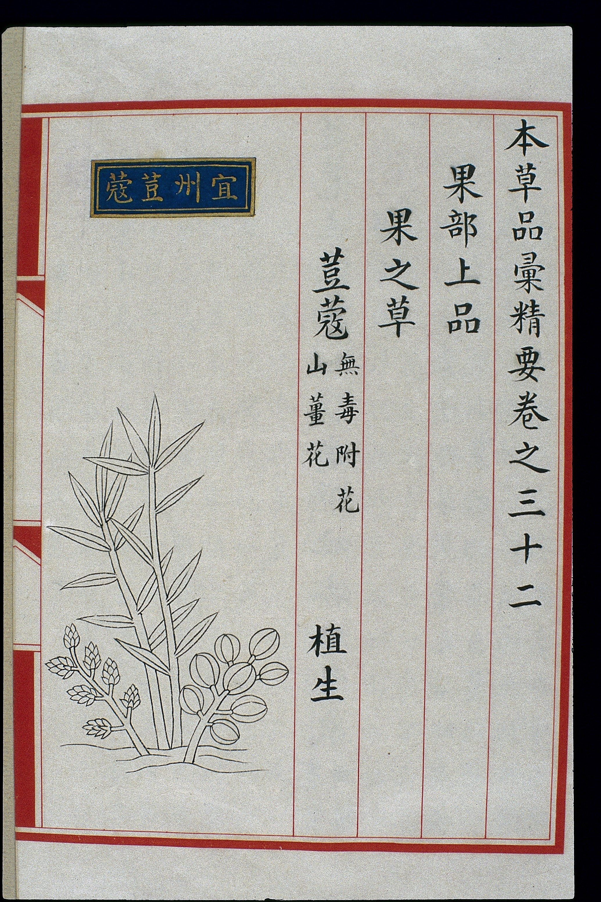 Traced copy of an illustration fromBencao pinhui jingyao(Materia Medica Containing Essential and Important Material Arranged in Systematic Order, completed 1505), in red and black ink. In 1503, the Ming emperor Li Zong put imperial physician Liu Wentai in charge of compiling a new herbal (bencao). The resulting work, whichran to 42 volumes, contained entries on 1815 pharmaceutical plants and other substances, with 1358 full-colour illustrations by artists including Wang Shichang. It was completed in the spring of 1505. However, in the summer of that year, The Emperor contracted a fever, which unsuccessfully treated by Liu Wentai, proved fatal. As a result Liu Wentai was banished from court, and the herbal was not allowed to be engraved or published. The original manuscript was preserved in the imperial palace, where only a select few officials were allowed to consult or copy it. The exemplar held in the Library of the China Academy of Traditional Chinese Medicine) is a traced facsimile made in the Ming (1368-1644) period by an unknown hand.This is a botanical illustration of cardamom (doukouorcaodoukou) from Yizhou [now in Guangxi province], showing the appearance of the plant.Bencao pinhui jingyaostates: Cardamom is first cited as a medicinal substance inMingyi bielu(Additional Records of Famous Physicians). The leaves of the plant resemble Alpinia japonica (shanjiang) or Pollia japonica (duruo), the roots resemble Alpinia officinarum (gaoliangjiang), and the fruits resemble pomegranates. Cardamom is pungent in sapor and warm in nature. It has the effect of warming the centre and dispersing cold; moving Qi and drying up dampness; halting vomiting and alleviating pain. It can be used to treat cold-damphuoluan(cholera and similar illnesses), cold pain in the stomach, nausea and retrograde Qi (ou'e qi ni), etc. Ink drawing 1505 By: Wang Shichang et al. (Ming period, 1368-1644)